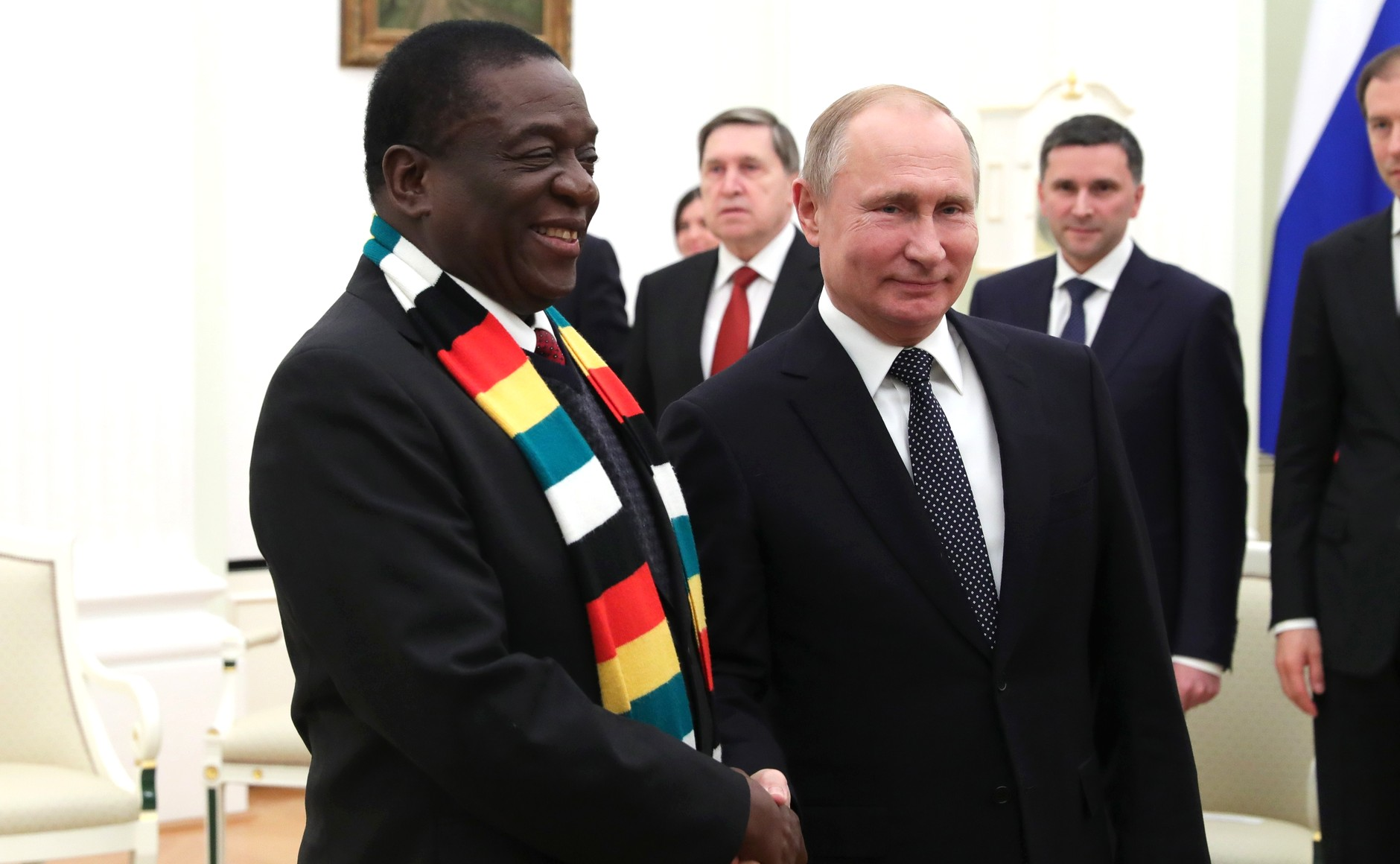 Russian President Vladimir Putin and Zimbabwean President Emmerson Mnangagwa